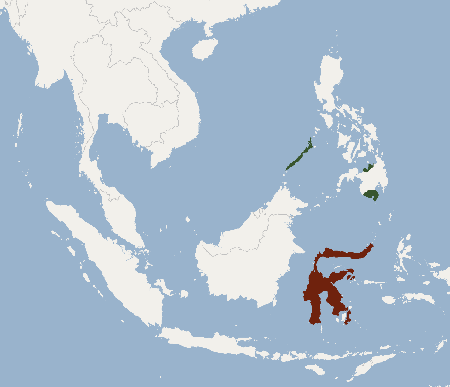 Geographical distribution of mops sarasinorum according to Museum specimens.